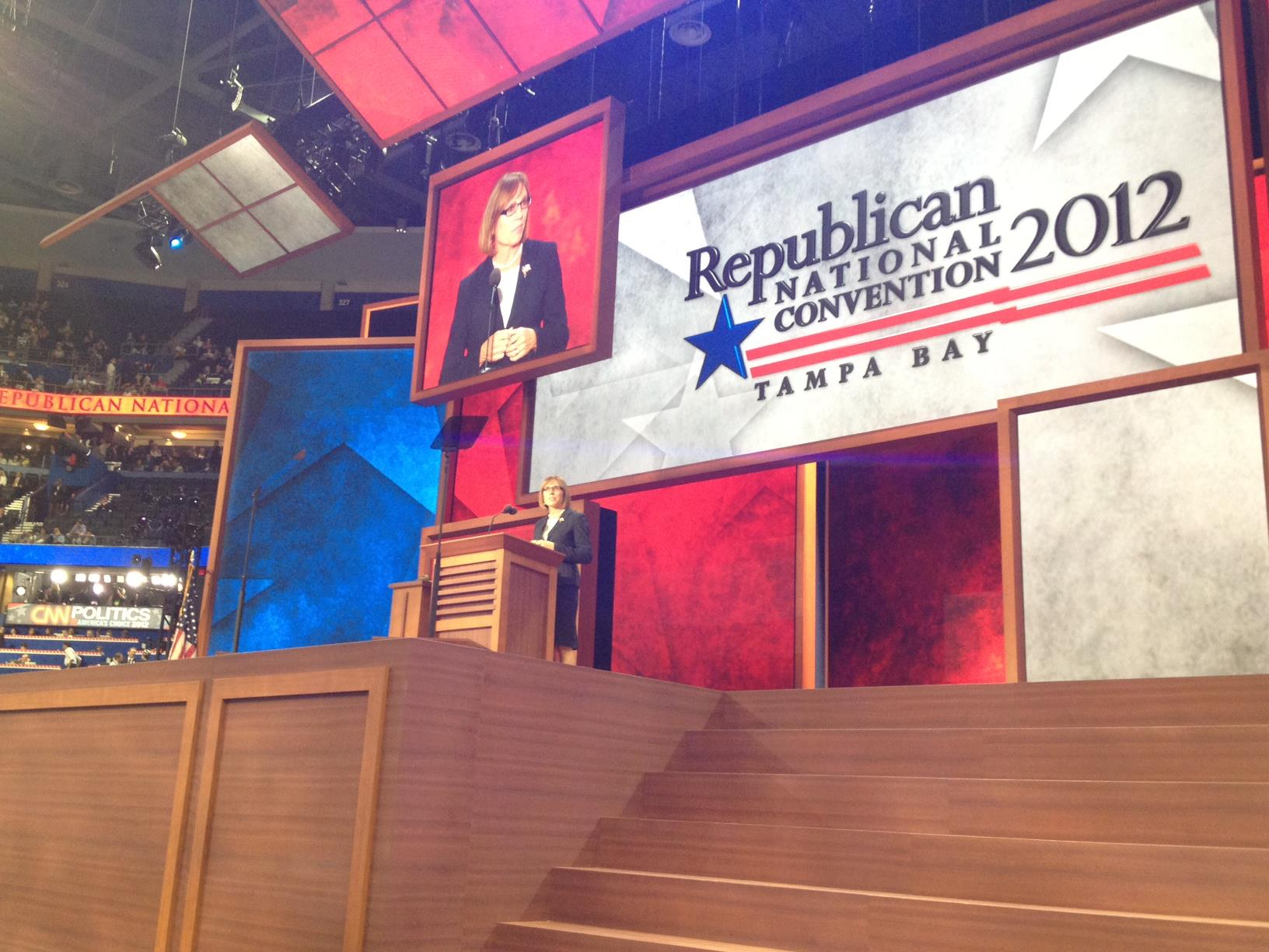 Sher Valenzuela, the 2012 Republican candidate for Lieutenant Governor of Delaware, speaking at the Republican National Convention in Tampa, Florida.